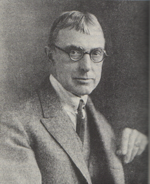 Desha Breckinridge in 1920 Scanned from: Dr. Klotter confirms that the image is public domain